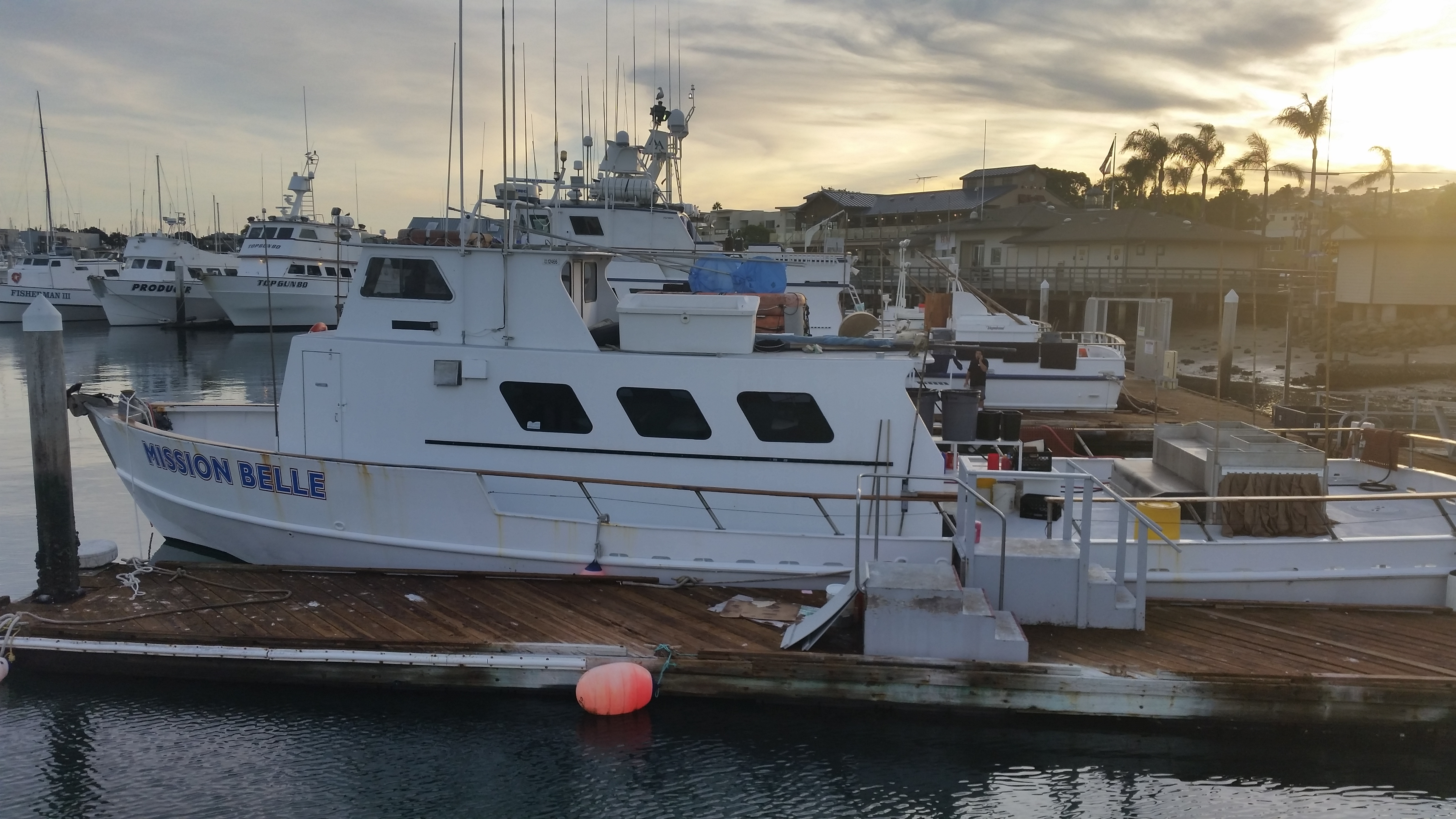 Built in 1960, and sails out of Point Loma, San Diego